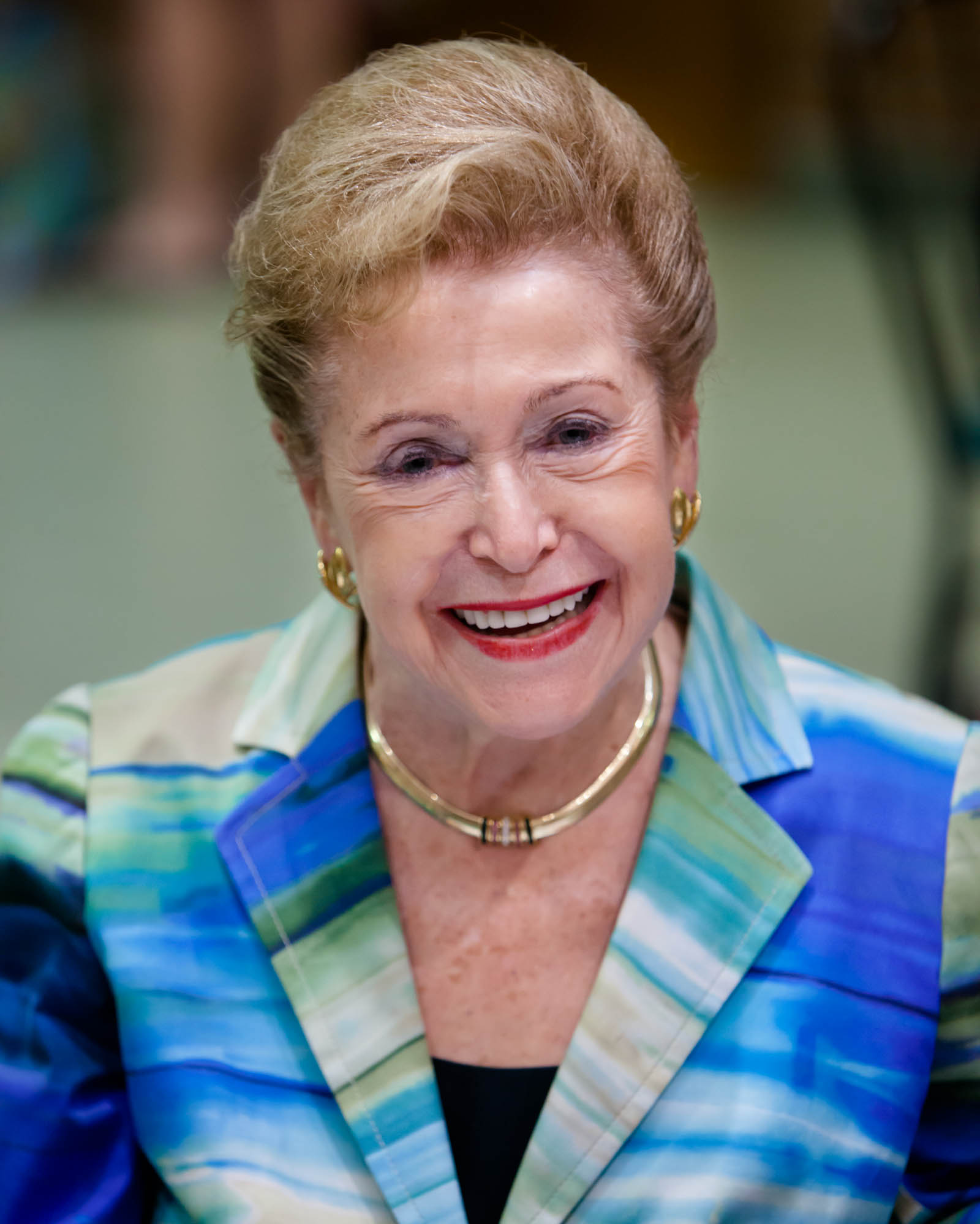 This photo was taken at the 2012 Mazza Summer Conference.